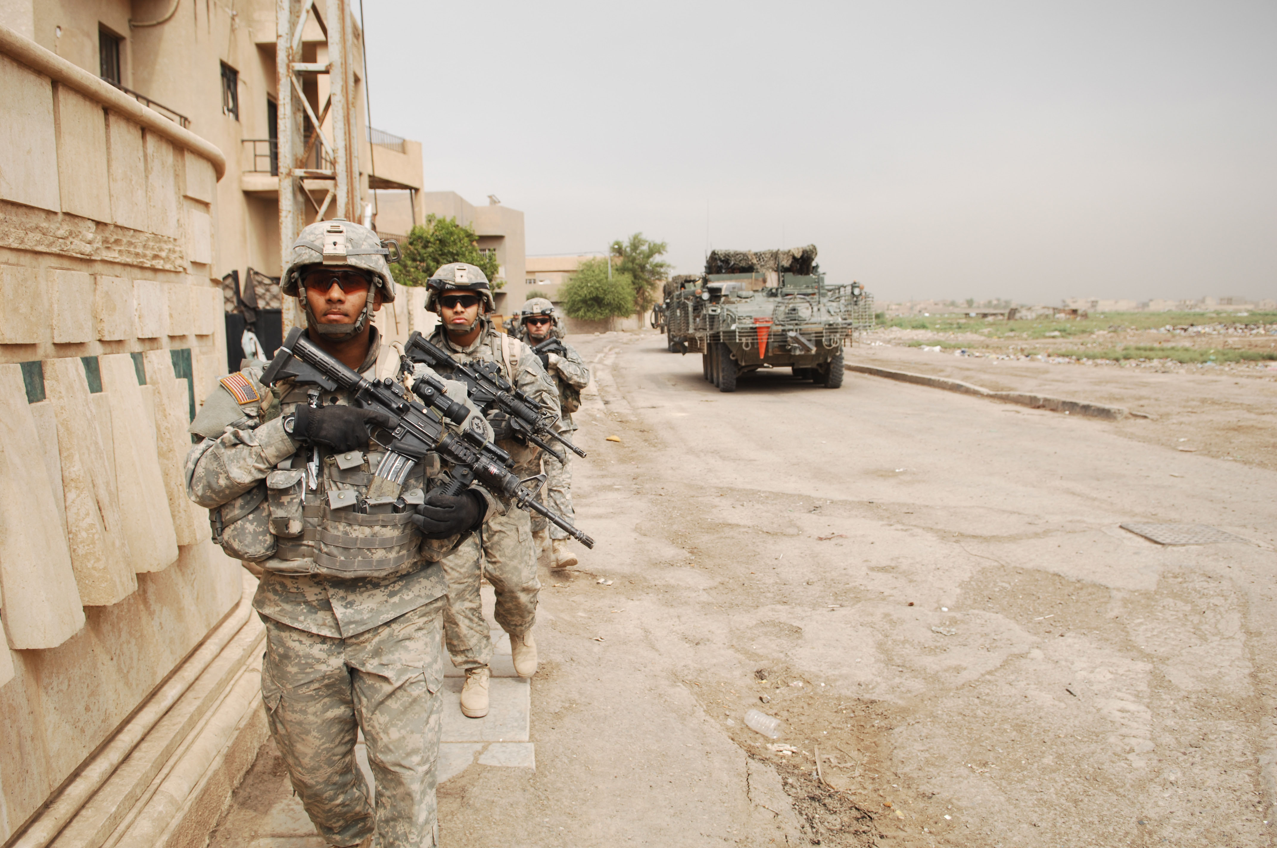 U.S. Army soldiers with 2nd Stryker Cavalry Regiment move to their next objective during a focused search in Baghdad, Iraq, on Oct. 7, 2007.